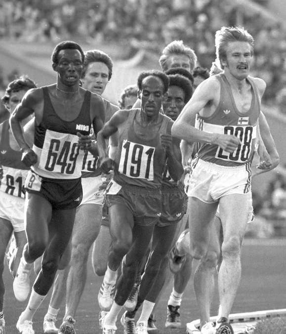 “5,000 m race”. Track and field athletics. The 22nd Summer Olympic Games in Moscow (July 19 - August 3, 1980). Athlets: 649 - Suleiman Nyambui (Tanzania) 191 - Miruts Yifter (Ethiopia) 208 - Kaarlo Maaninka (Finland)